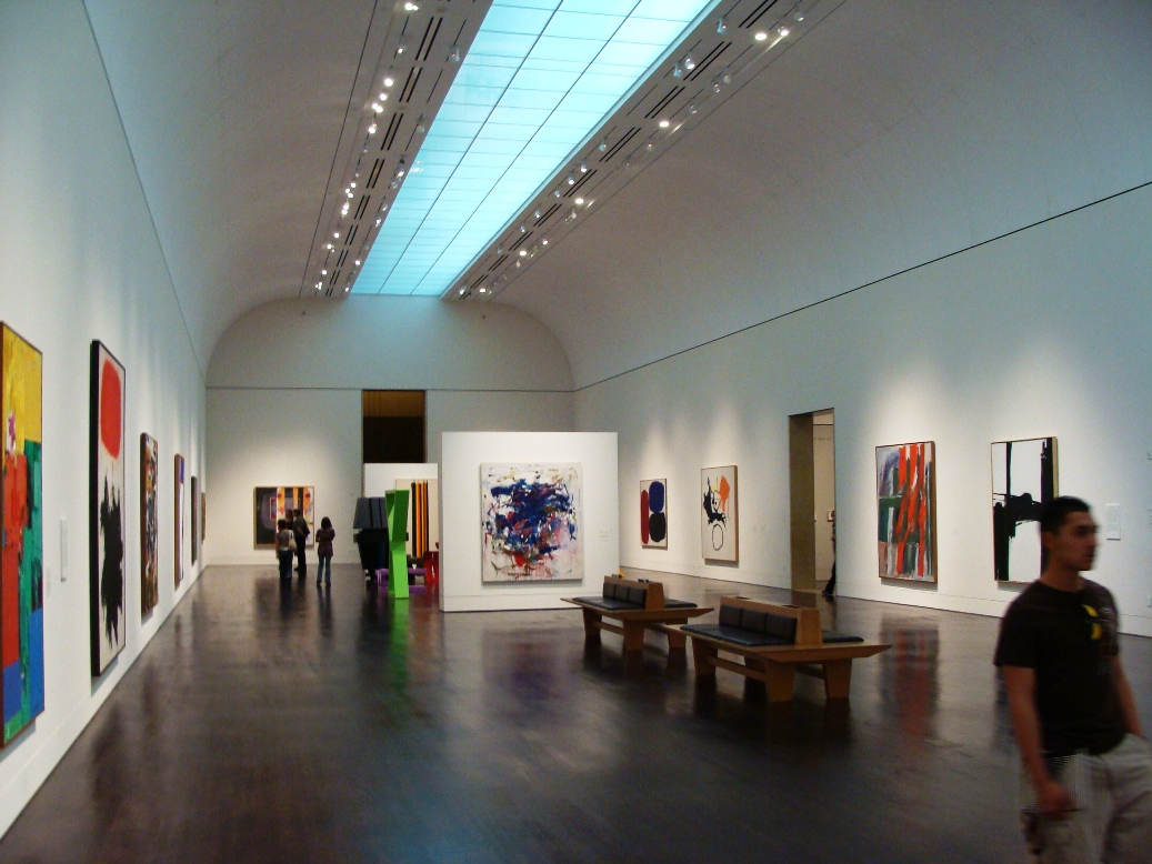 The Blanton Museum of Art, Austin, Texas